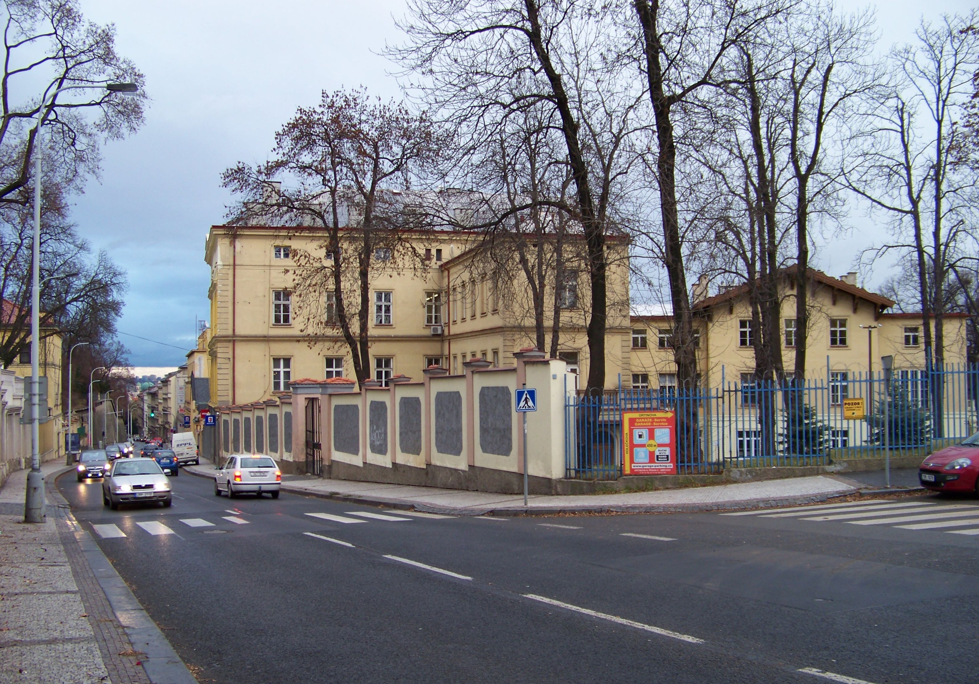 Prague-Smíchov, the Czech Republic. Holečkova street.